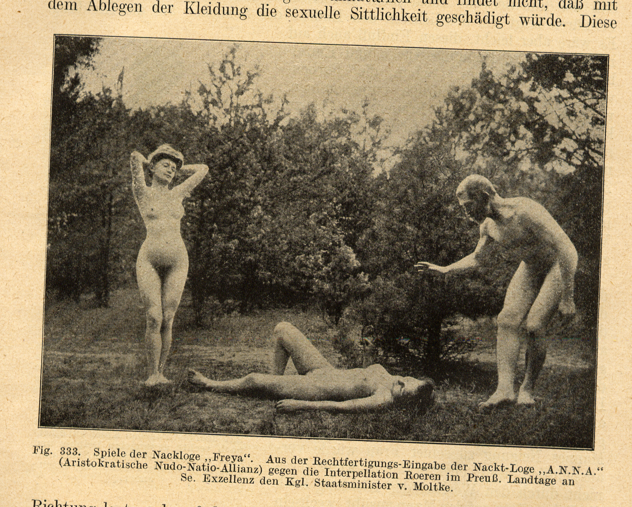 From the book: Albert Moll, Handbuch der Sexualwissenschaften, Verlag Von F.C. Vogel, Leipzig 1921. Picture by Stefano Bolognini.